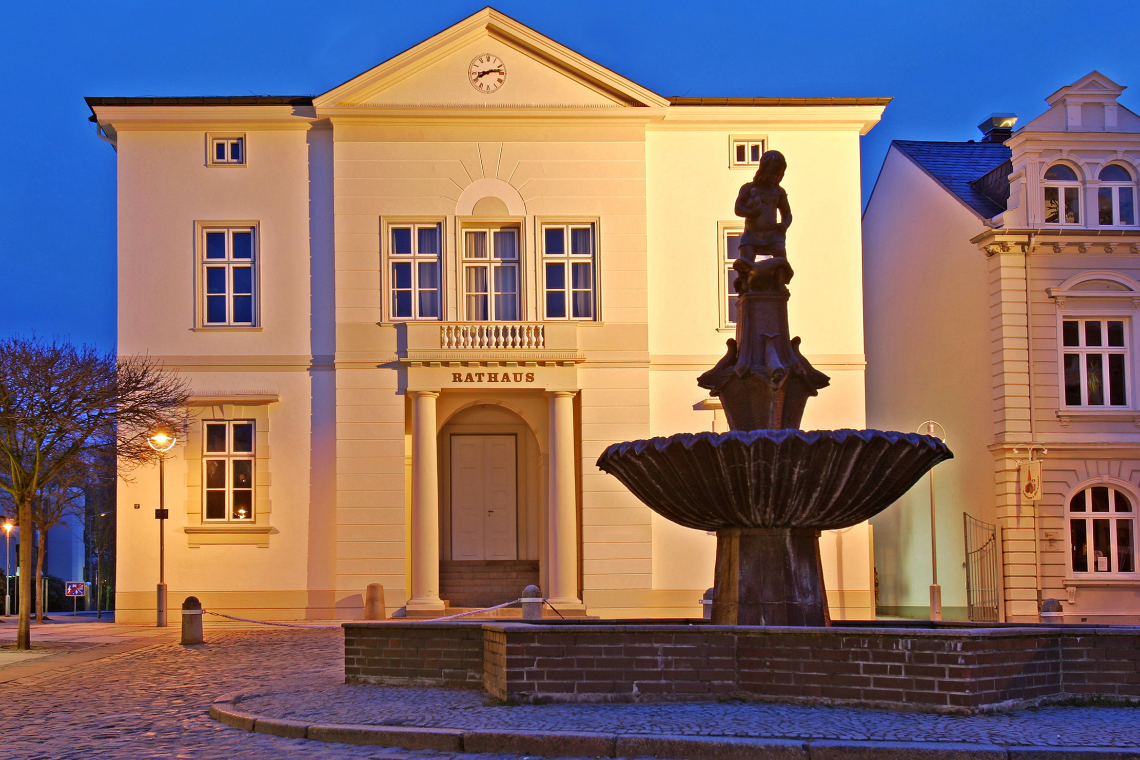 Old town hall of Bad Oldesloe with the marketplace and the Gänselieselbrunnen. The building currently houses the registrar's office and a multifunctional hall.